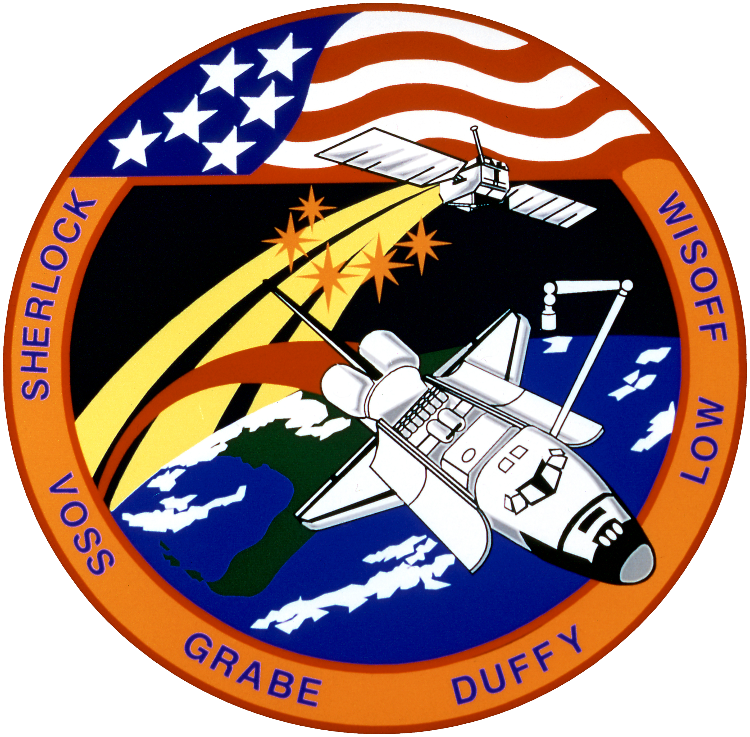 STS-57 Endeavour, Orbiter Vehicle (OV) 105, crew insignia (logo), the Official insignia of the NASA STS-57 mission, depicts the Space Shuttle Endeavour maneuvering to retrieve the European Retrievable Carrier (EURECA) microgravity experiment satellite. Spacehab -- the first commercial space laboratory -- is depicted in the cargo bay (payload bay (PLB)), and its characteristic shape is represented by the inner red border of the patch. The three gold plumes surrounded the five stars trailing EURECA are suggestive of the United States (U.S.) astronaut logo. The five gold stars together with the shape of the orbiter's mechanical arm form the mission's numerical designation. The six stars on the American flag represent the U.S. astronauts who comprise the crew. With detailed input from the crewmembers, the final artwork was accomplished by artist Tim Hall. The names of the STS-57 flight crewmembers are located along the border of the patch. They are Commander Ronald J. Grabe, Pilot Brian J.